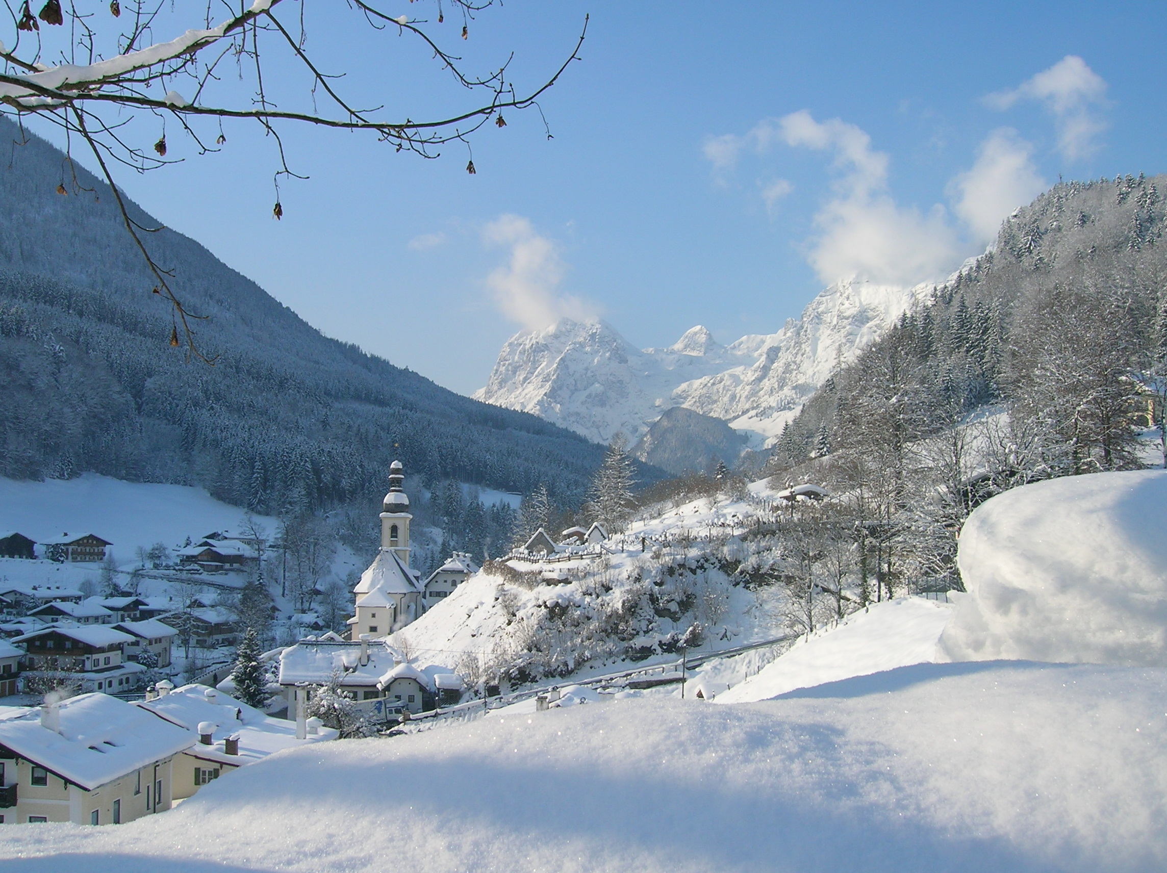 Berchtesgadenland